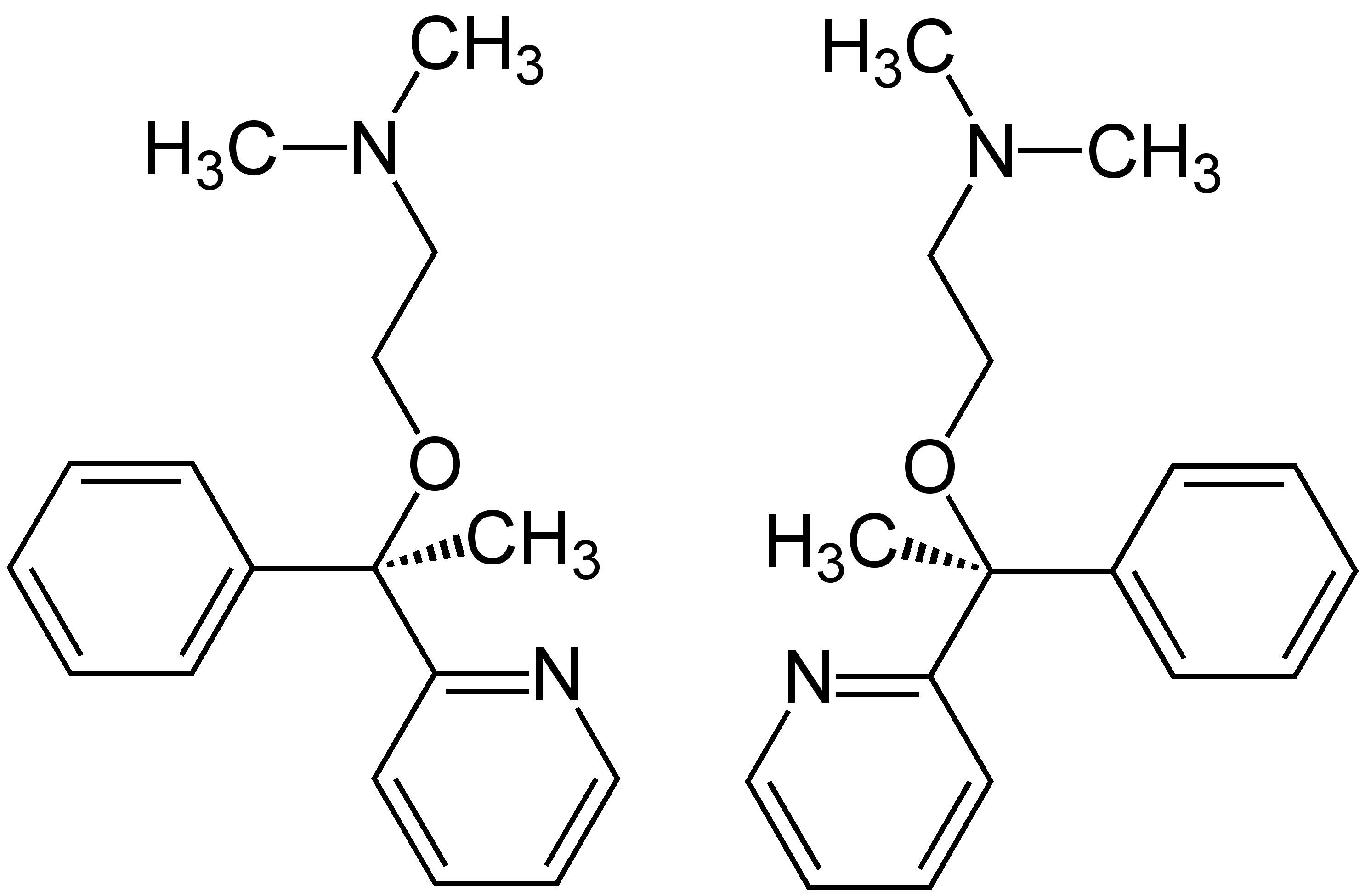 (±)-Doxylamine_Enantiomers_Structural_Formulae